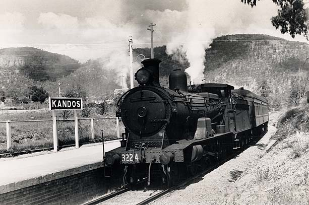 Class P6 (C3224) locomotive at Kandos Railway Station Dated: No date Digital ID: 17420_a014_a014000699 Rights: We'd love to hear from you if you use our photos. Many other photos in our collection are available to view and browse on our website using Photo Investigator.